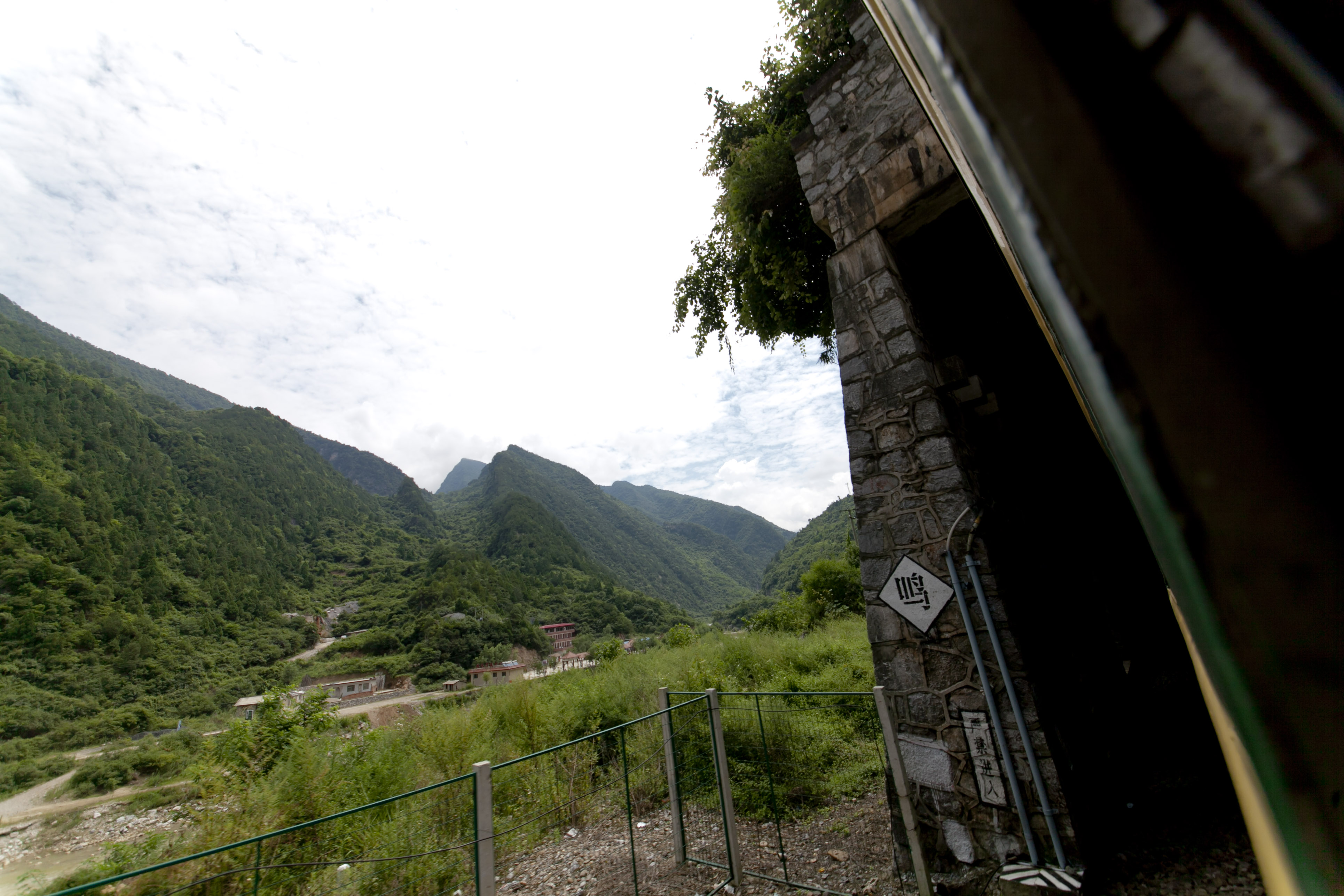 Baocheng Railway near Jialing river.